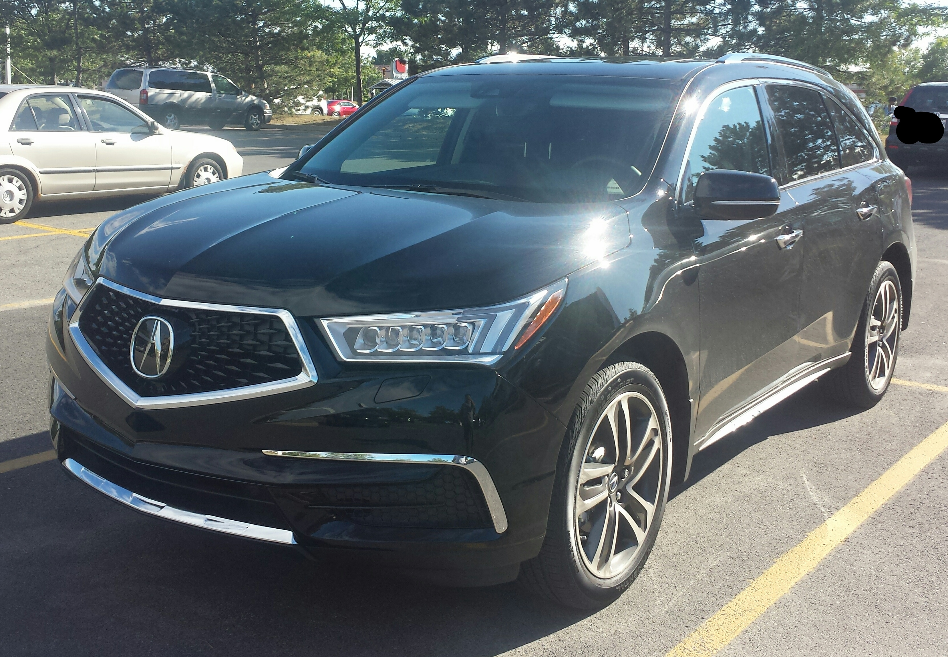 2017 Acura MDX photographed in Montreal, Quebec, Canada.